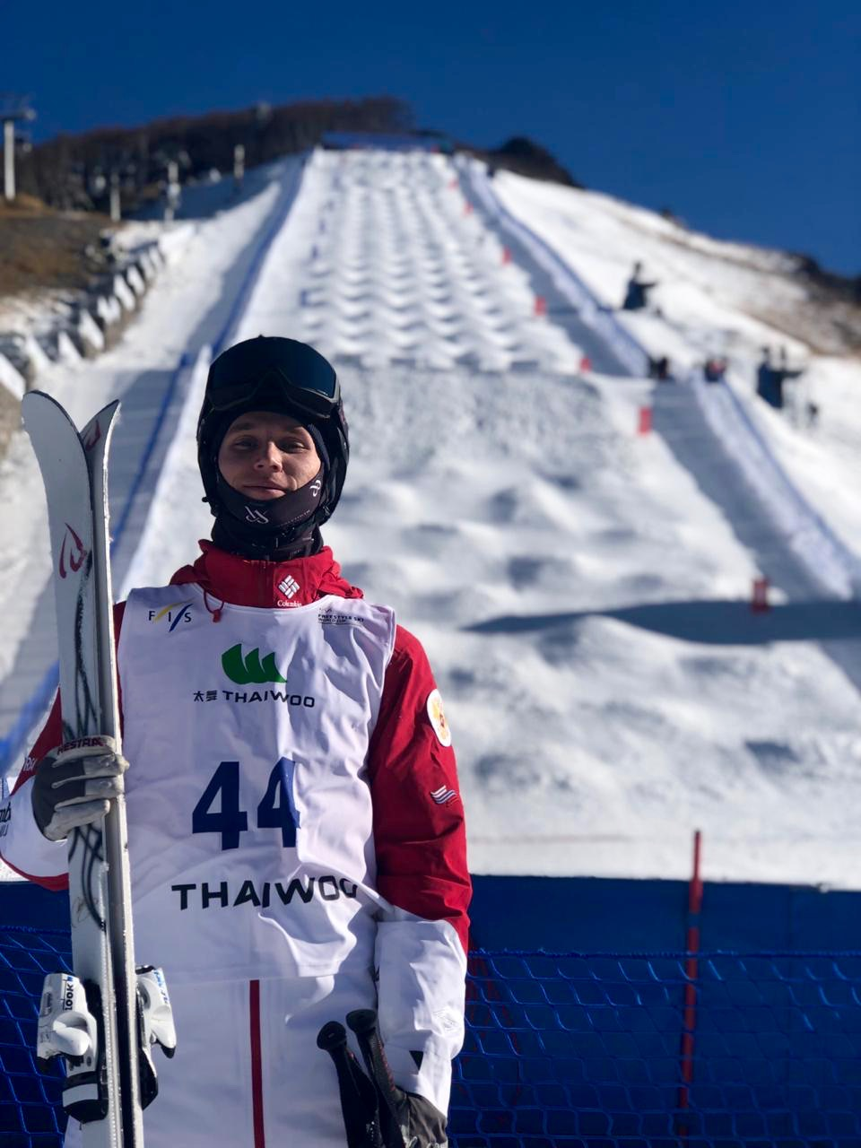 Pavlenko Alexey